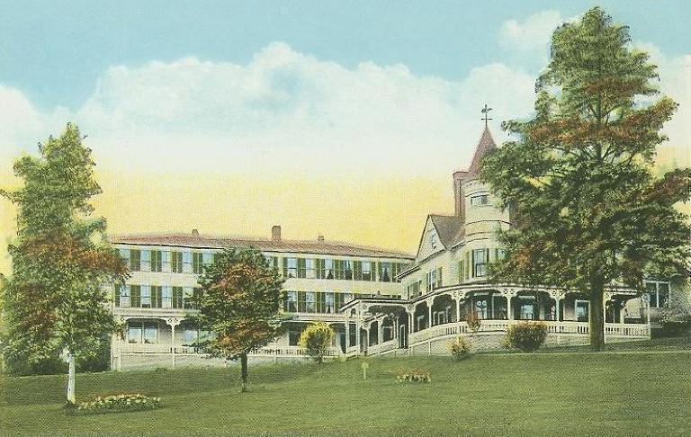 Hotel Pemigewasset, Plymouth, NH; from a 1922 postcard.